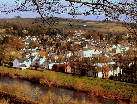 My own photo of Usk, taken in 2006, from Woodside